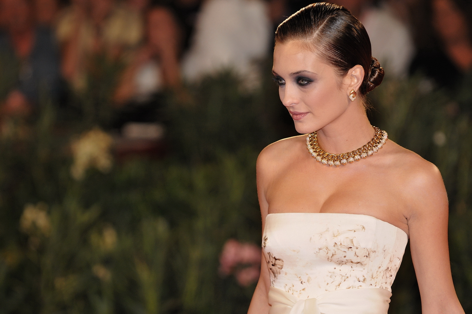 Actress Carolina Crescentini attends the 'A Single Man' premiere at the Sala Grande during the 66th Venice Film Festival